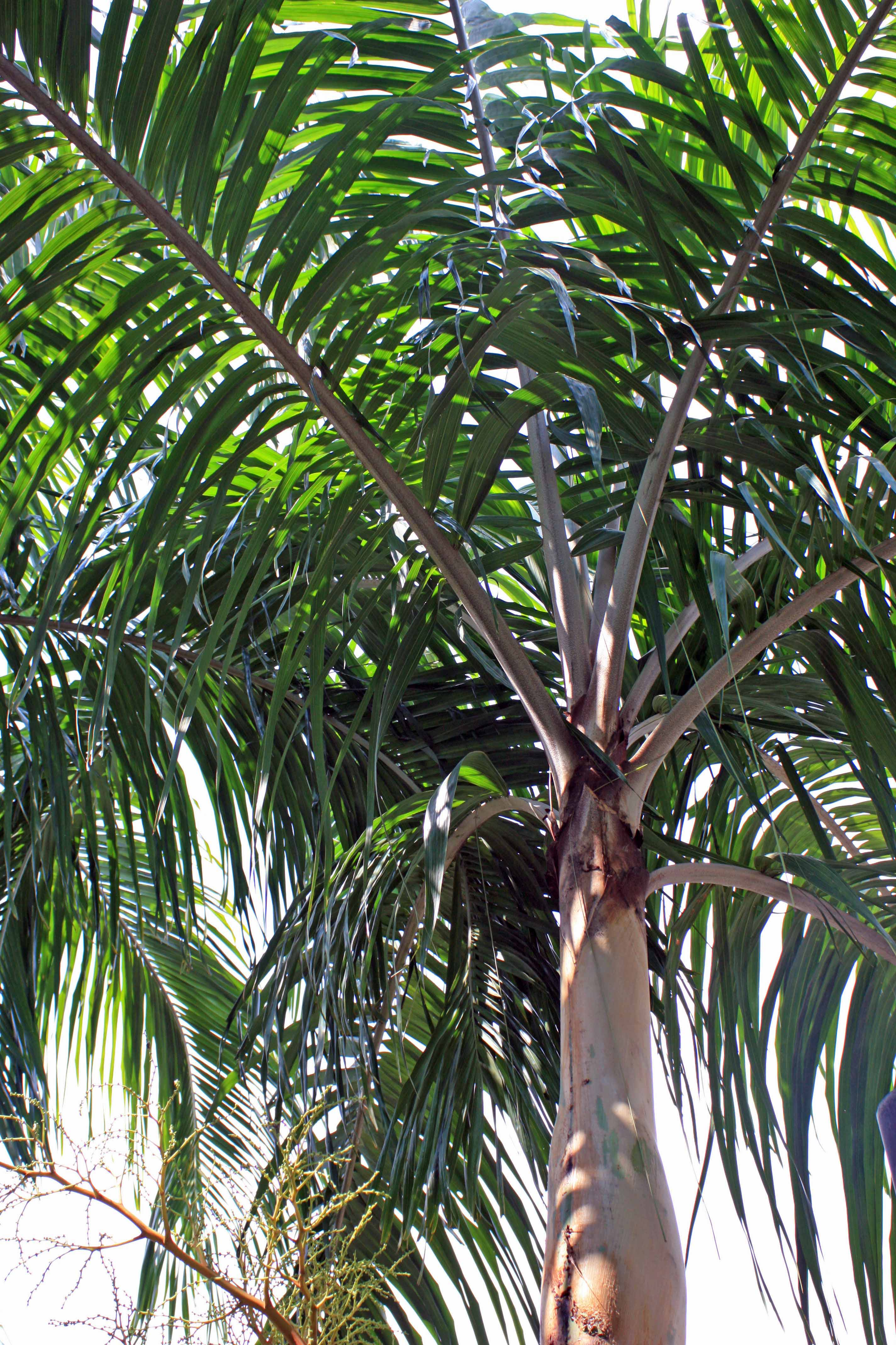 Carpentaria acuminata, Nong Nooch Tropical Botanical Garden, Thailand.